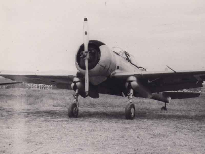 Curtiss Falcon CW 22 (1939-1949)